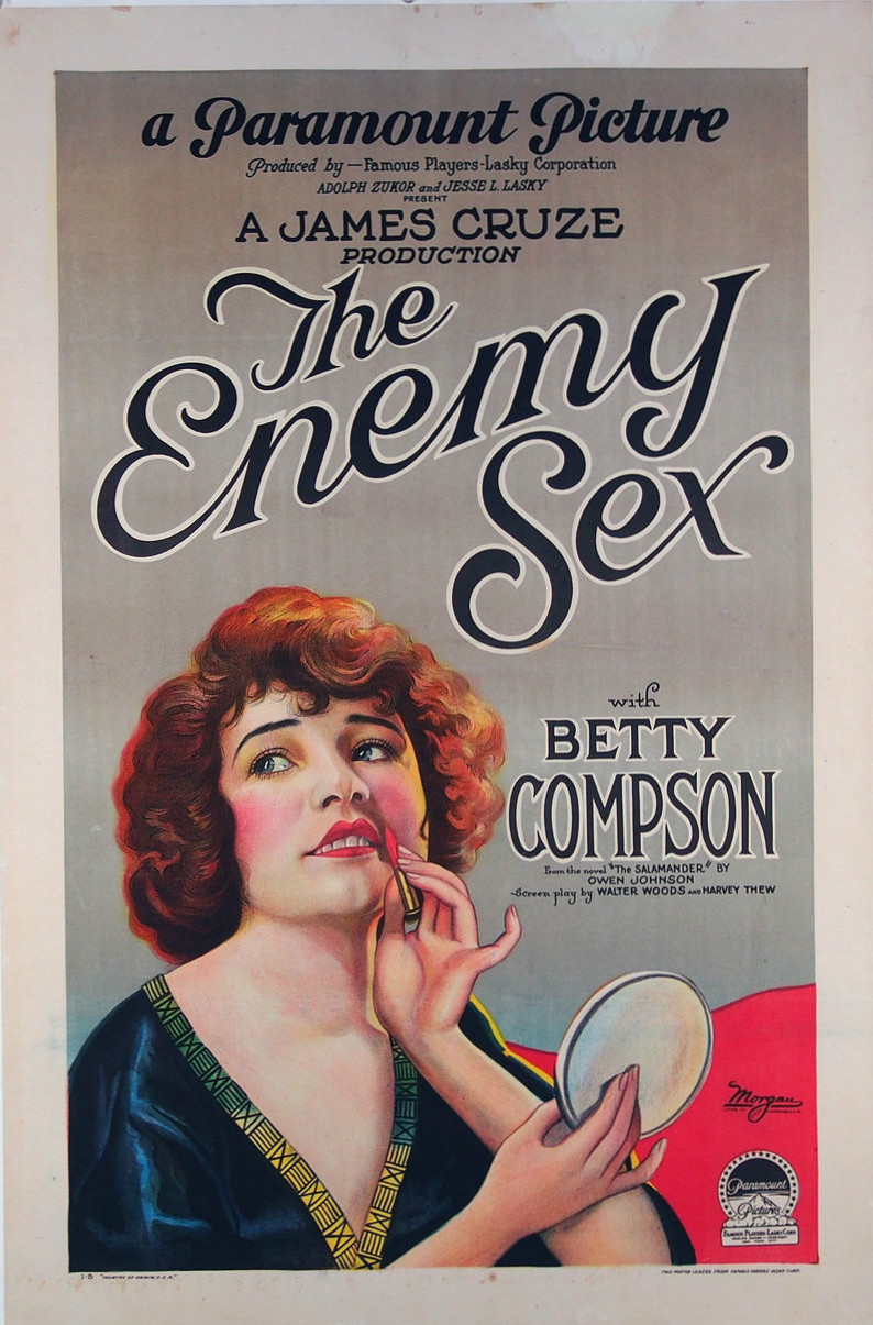 Window poster for the American drama film The Enemy Sex (1924).